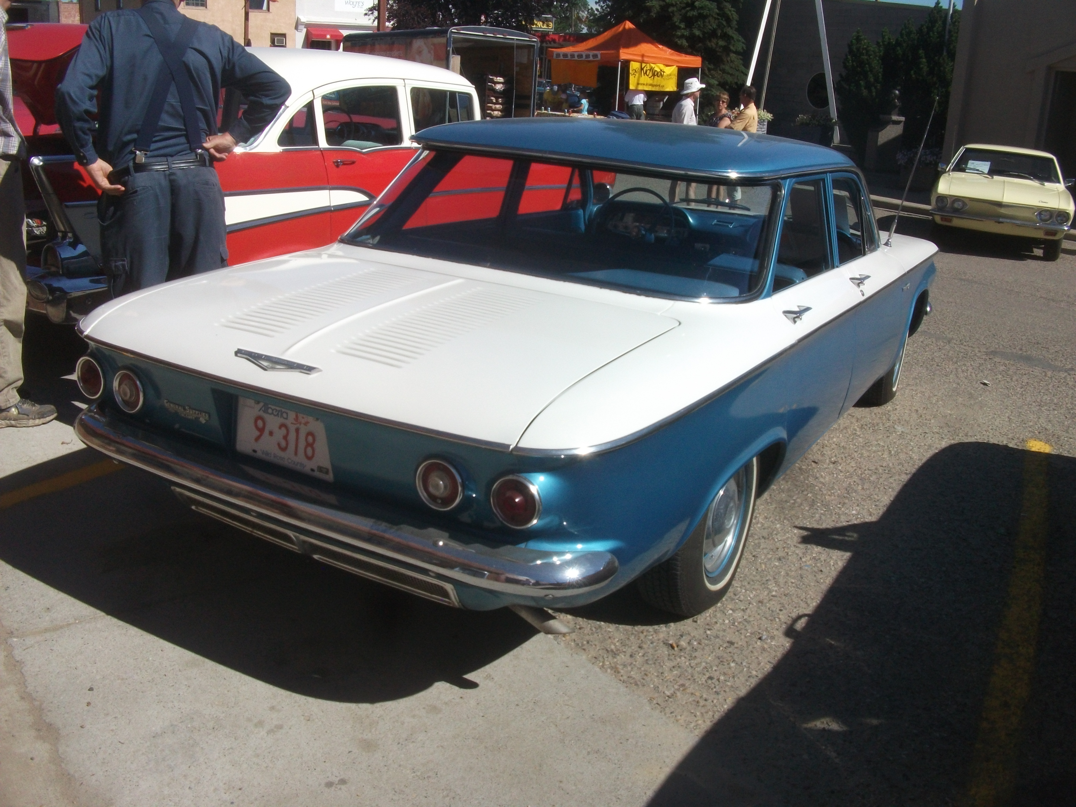 1961 Chevrolet Corvair sedan rear